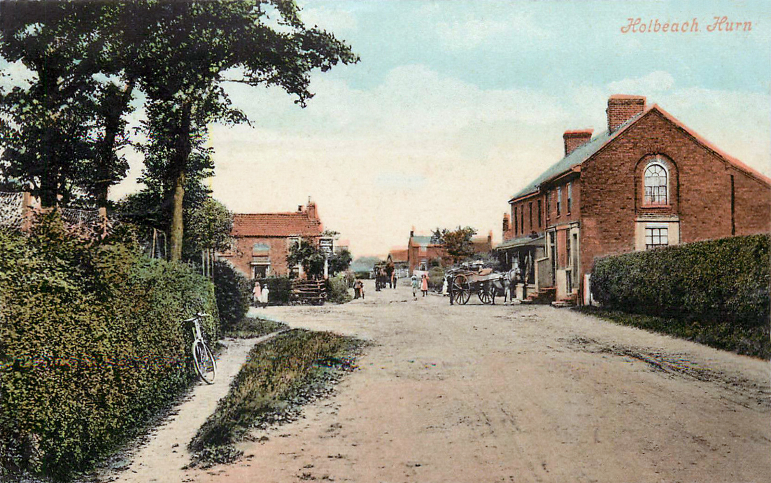 A street in Holbeach Hurn, Lincolnshire, England c.pre 1916